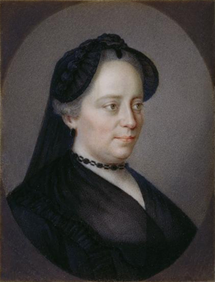 Maria Theresia, Kaiserin Bildnis: Brust, 3/4 rechts; mit Halskette. Windt S. 52 (XV/11) - Ausstellung: Wien, 1905, Nr. 504. Porträtminiatur.Wien,Hofburg,Präsidentschaftskanzlei.